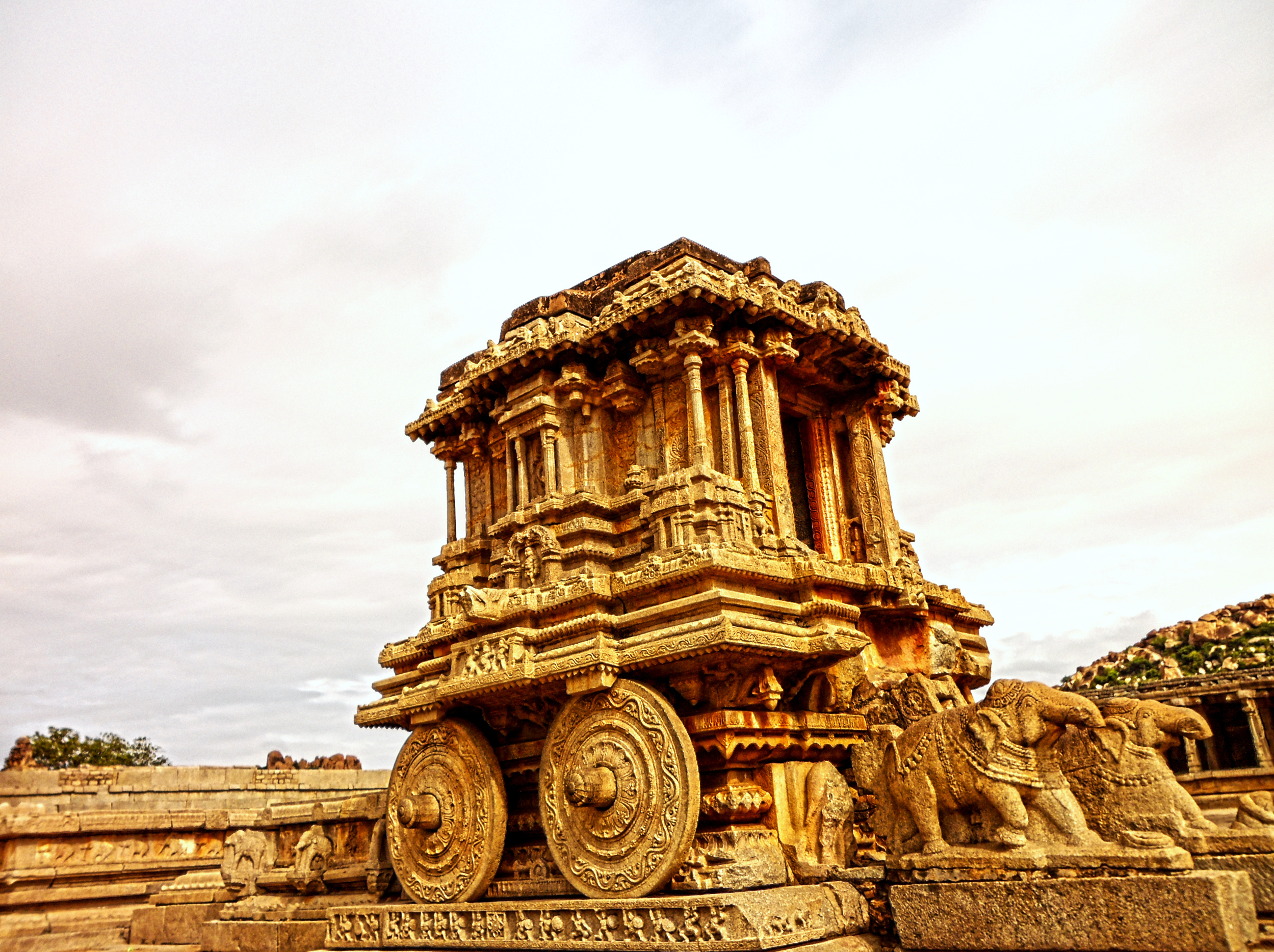 High Dynamic Range (HDR) image of Stone Chariot at Vijaya Vittala Temple, Hampi.